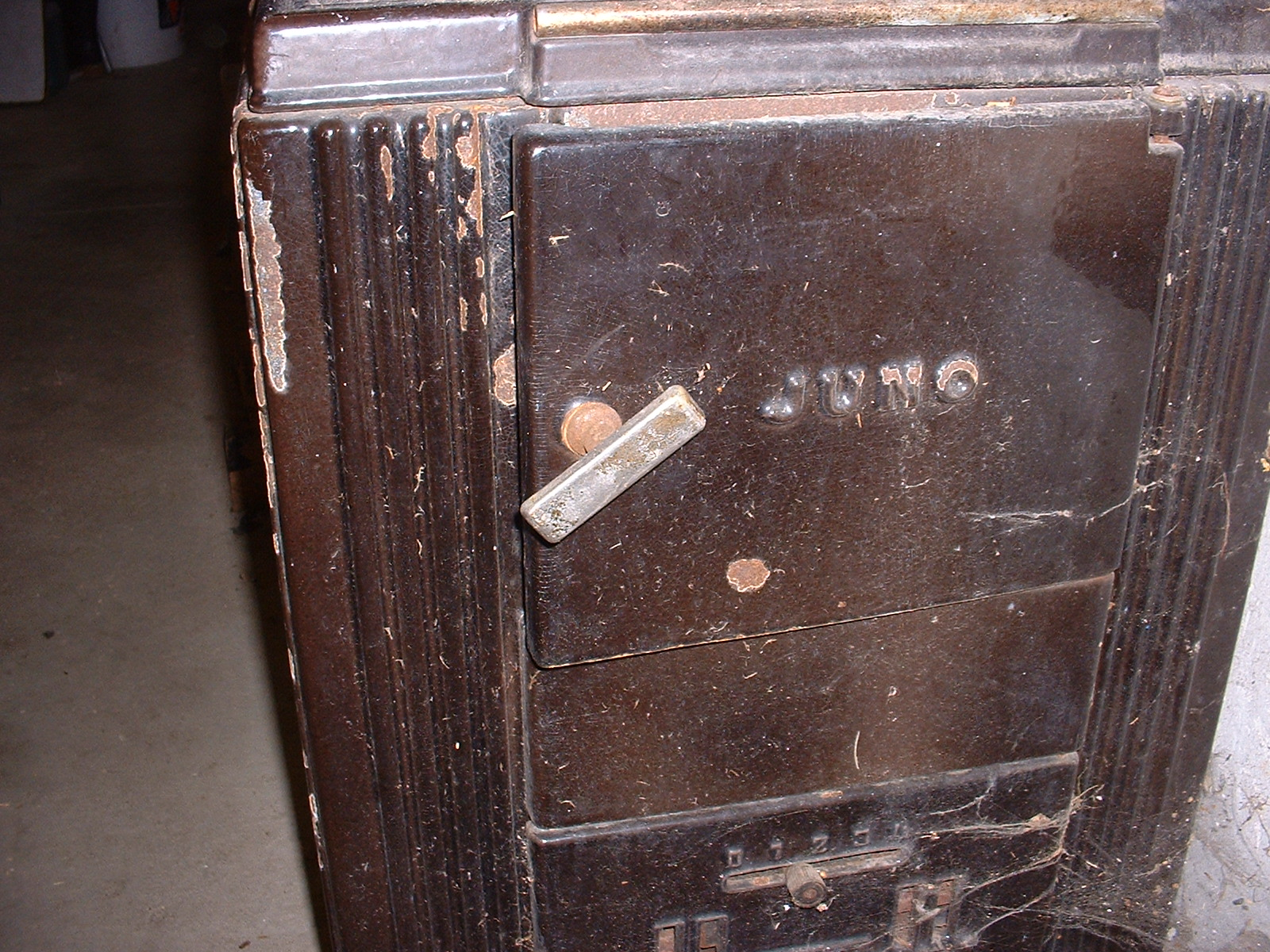 A free standing oven from Juno